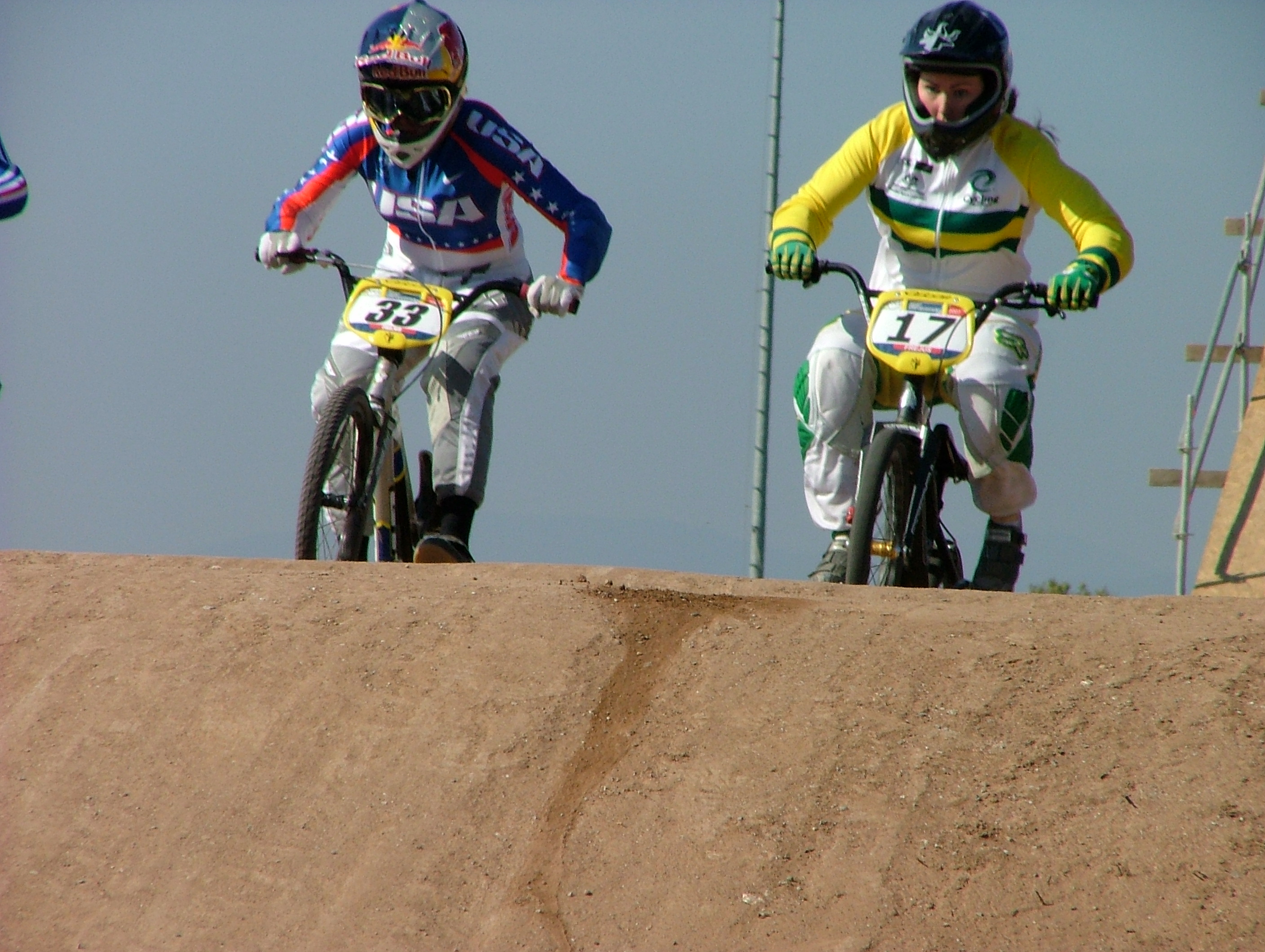 33 Jill Kintner (USA) 17 Tanya Bailey (Australia)